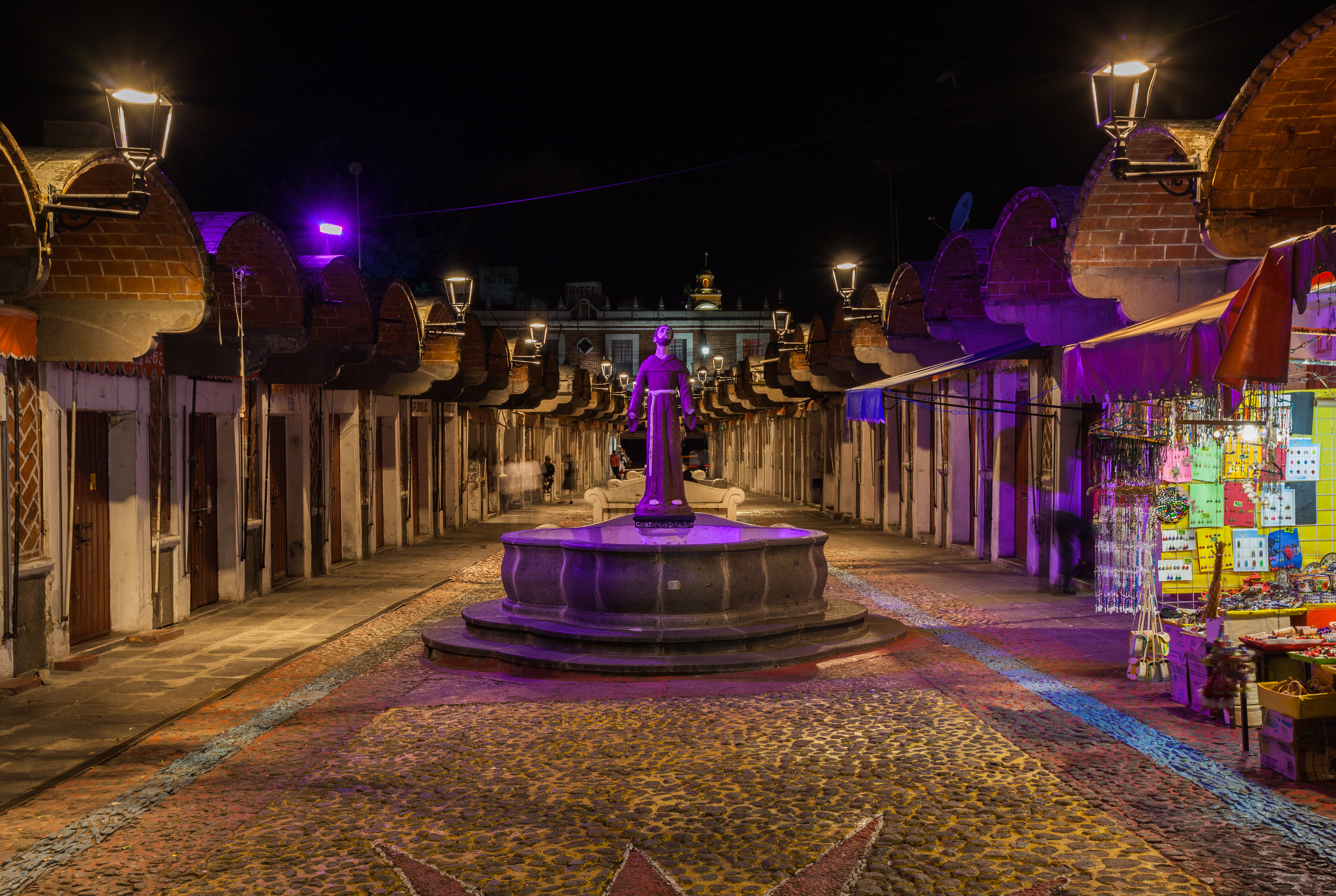 Market of El Parián, Puebla, Mexico